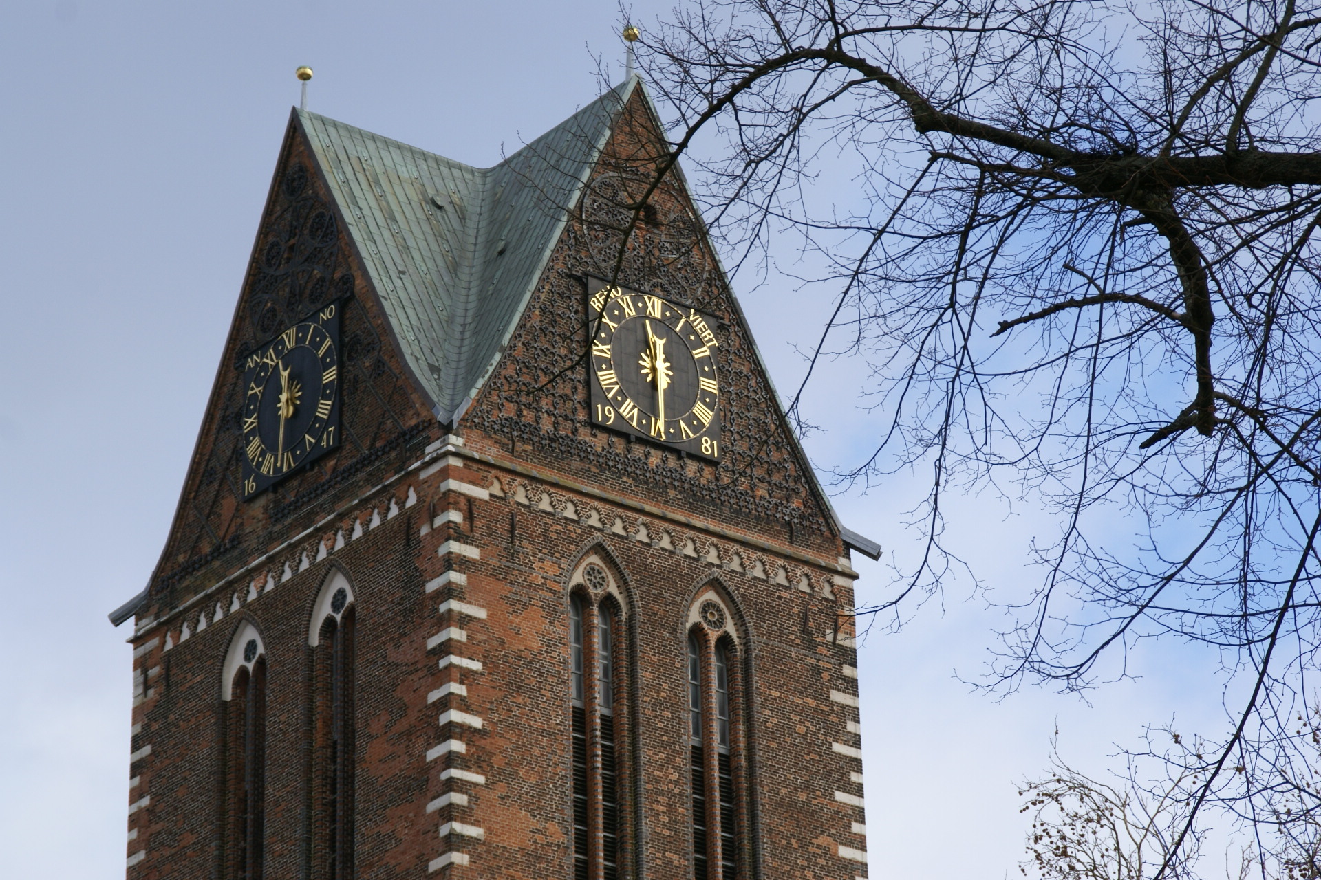 Clock tower of St. Mary Church in Wismar, Germany